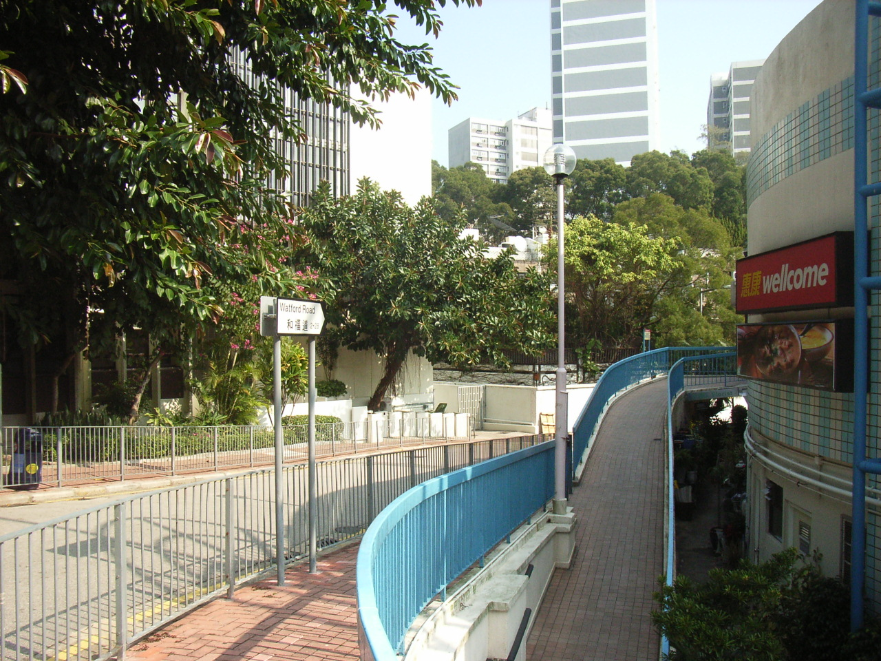 Watford Road via German Swiss International School (Middle Block), Peak Road, the Victoria Peak, Hong Kong. 和福道（Watford Road），是香港島太平山頂山頂纜車總站的東面，山頂道的南面(摘星閣)，經僑福道(德瑞國際學校中座)，再向南走可以到達的一條行車街路，有15號巴士及1號小巴出入。 Photographer and author is ParkerStarS.